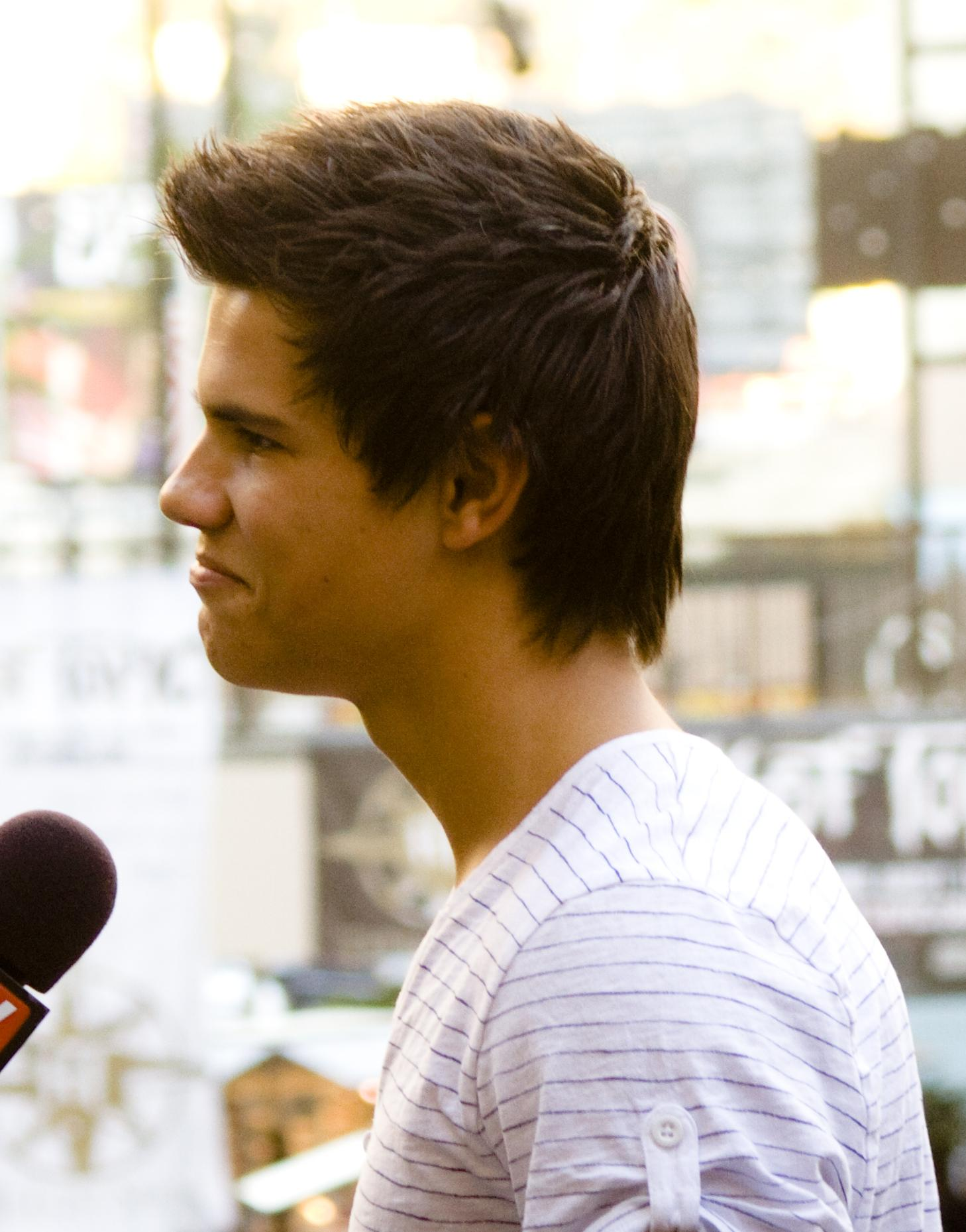 Actor Taylor Lautner.